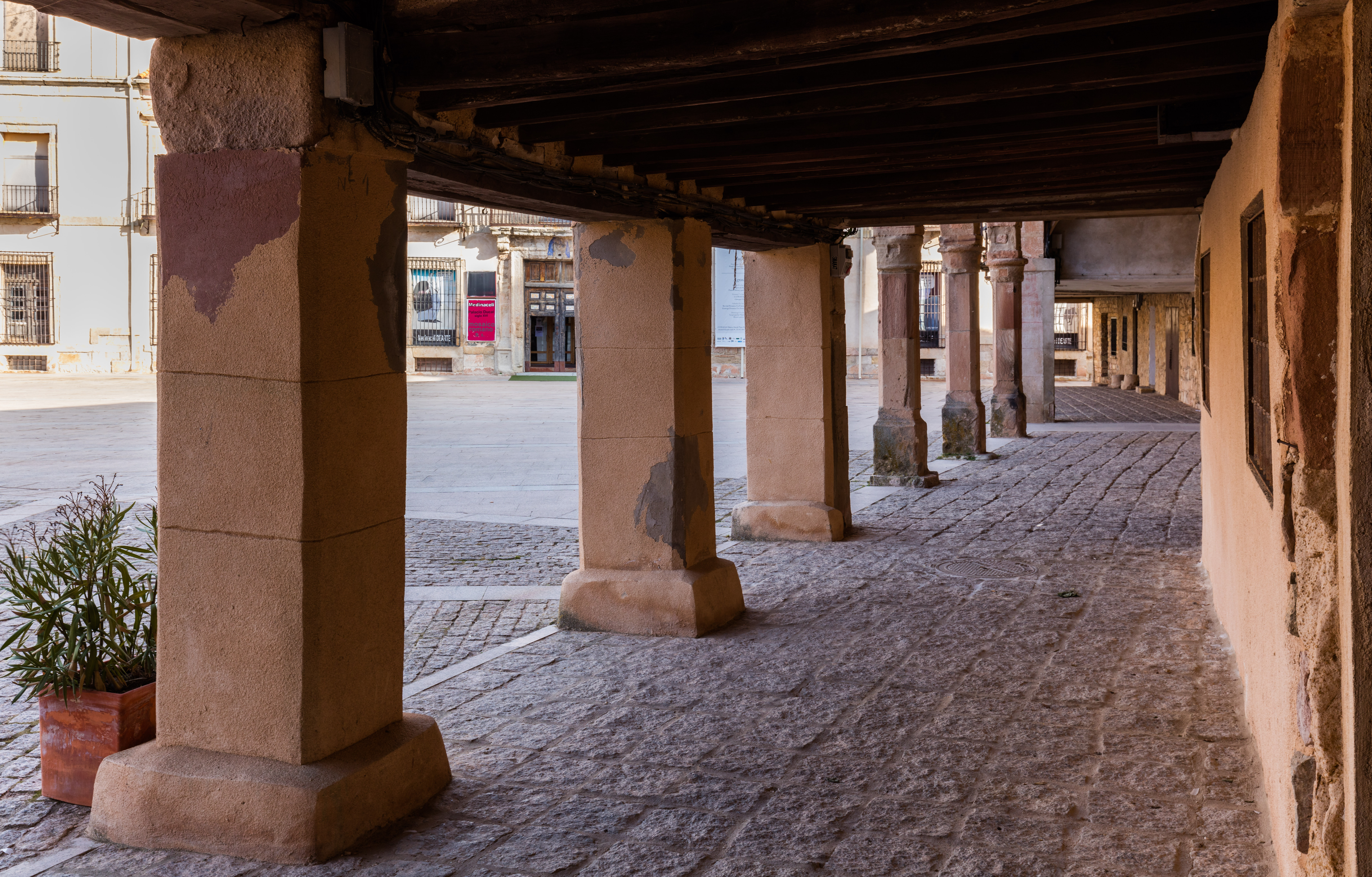 Main square of Medinaceli, Soria, Spain